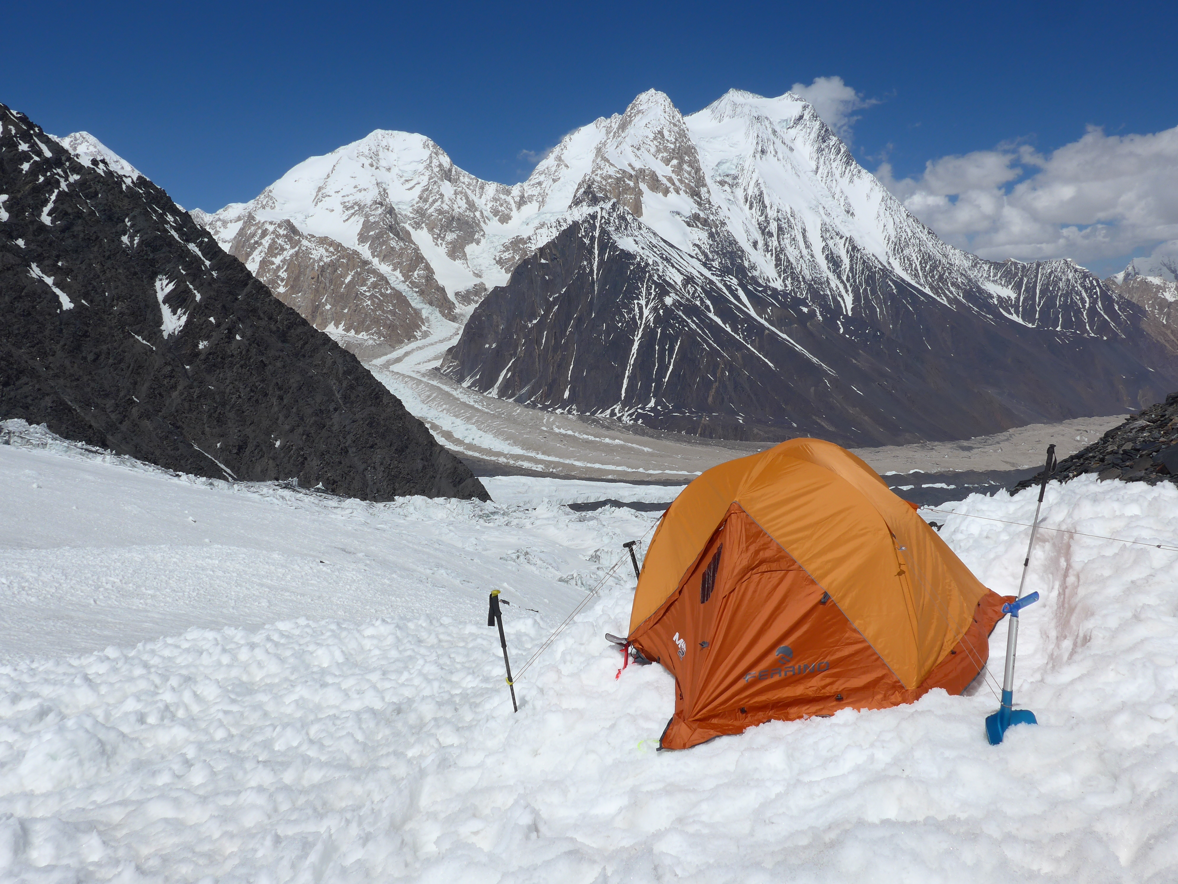 Terichmir Camp 1. Upper Terich glacier.